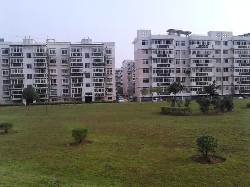 Jinggangshan University teachers' apartments